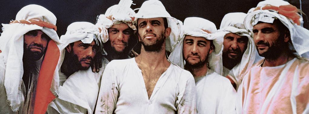 The seven Mercury astronauts at the USAF Survival School (Stead AFB) in 1960.